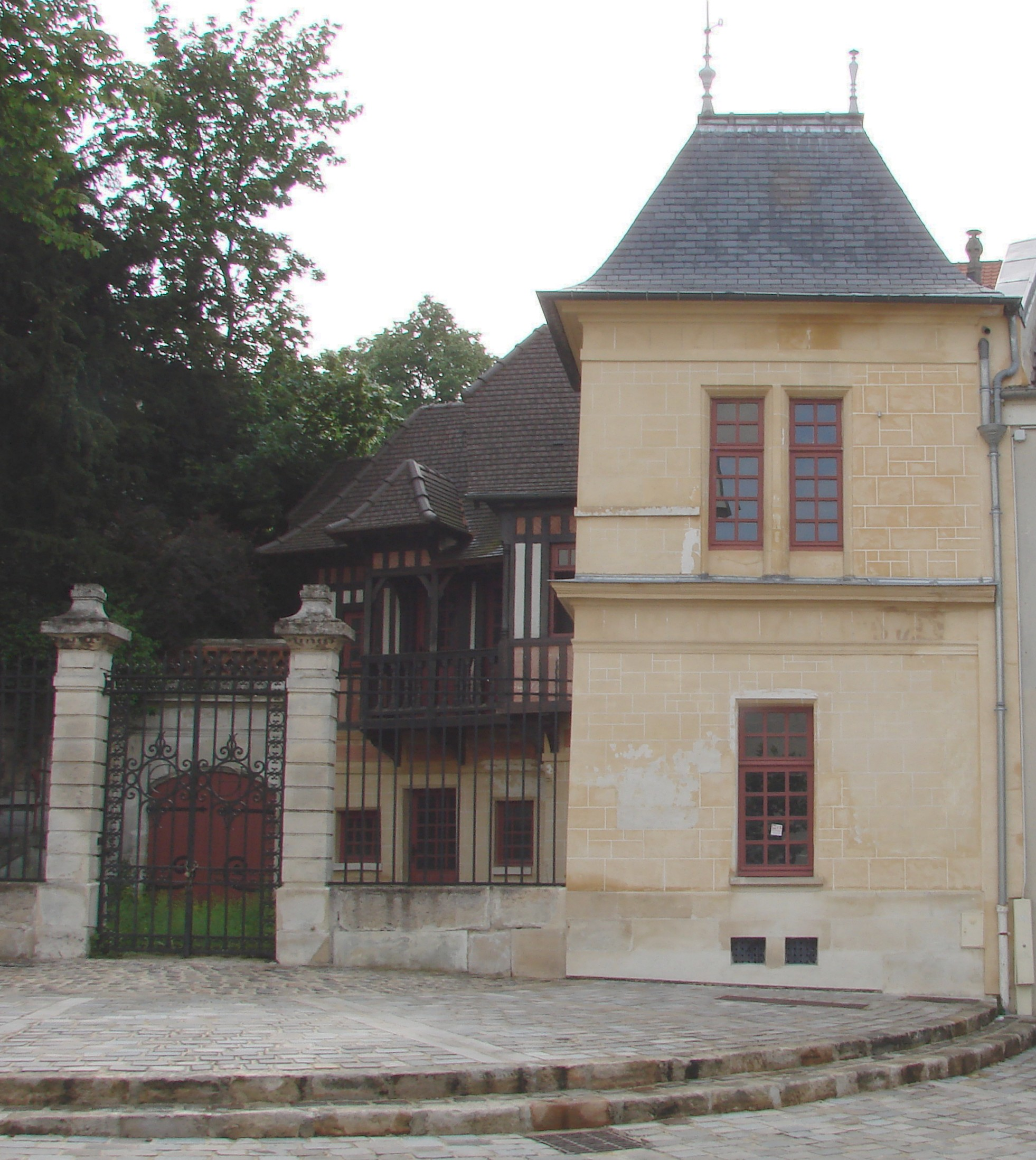 Montmorency, France, Conciergerie of the Château Gaillard